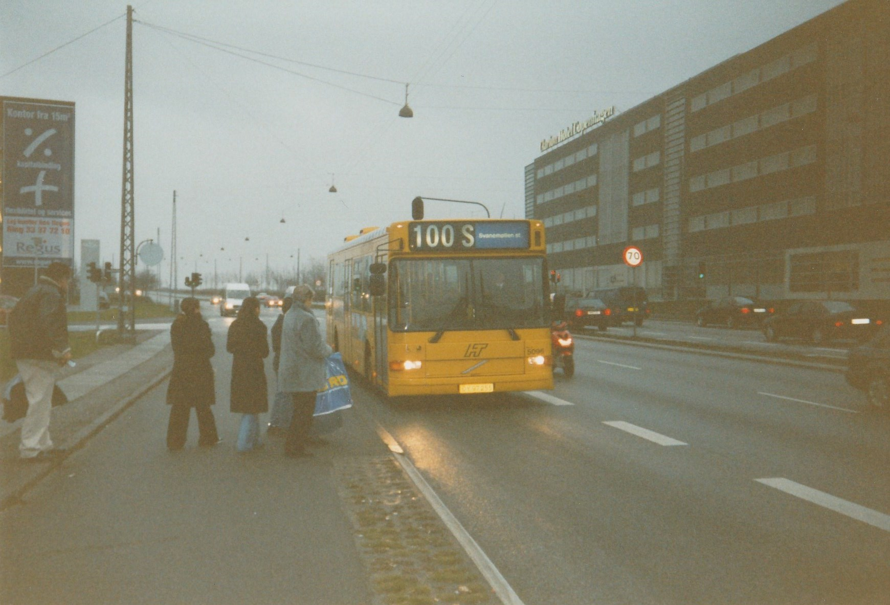 Connex bus 5096 as HT bus line 100S on Sjællandsbroen at Sluseholmen in Kongens Enghave in Copenhagen.